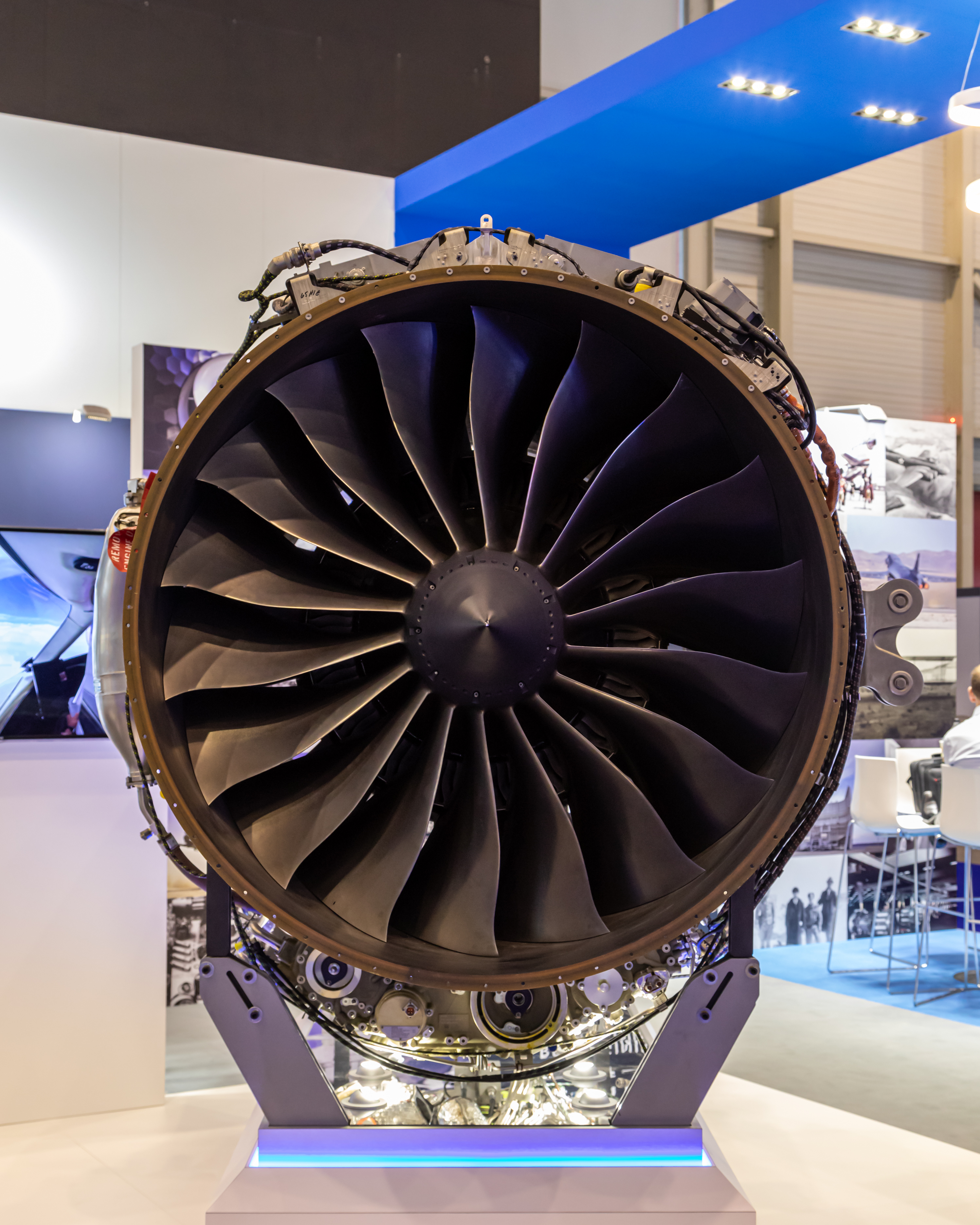 Intake of a GE Passport turbofan engine at EBACE 2019, Palexpo, Switzerland